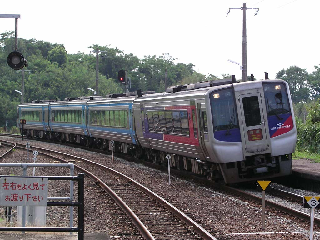 JR Shikoku 2000 series DMU at Sanuki-Saida Station in August 2003. Photographed by Kansai explorer with C5050Z, retouched and resized thereafter